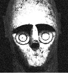 In March of 1974 at Monti Prama - Sinis / Cabras (Or), a farmer during a simple plowing, inadvertently touched something unusual, a giant head of a statue! Frightened by the discovery asked for help to the authorities that they speak two of the most famous Sardinian archaeologists of the time, Giovanni Lilliu and Enrico Atzeni, who gave the green light to the largest and most mysterious discovery in the Sardinian territory. The excavations gave 30 gigantic statues of stone, about two meters high, at least 2700 years ago. These 30 warriors, including archery and boxing, perhaps a guardian of a tomb just like the famous Chinese warriors, are different characters by human beings, they show unusual features.: They have eyes like two circles superimposed and their mouth is a simple slot. They have a hair style done at Celtic braids and oriental clothes. But what makes them unique is their titanic high, ranging between 2 and 2.60 meters! Statues in sandstone, standing straight and with arms folded to keep shields or weapons. The statues were found in a sacred area above the bases that delimited "nuraghe tombs" and several "betili" (items like menhir). Giovanni Lilliu, the archaeologist who worked on the excavations, told that at the time of discovering the clear and warm sun that characterized the day was suddenly overshadowed by a terrible storm that had hit while the statues were brought to light. It seemed that the ancient had awakened with all the statues, a feeling impossible to describe recalls fear Lilliu.